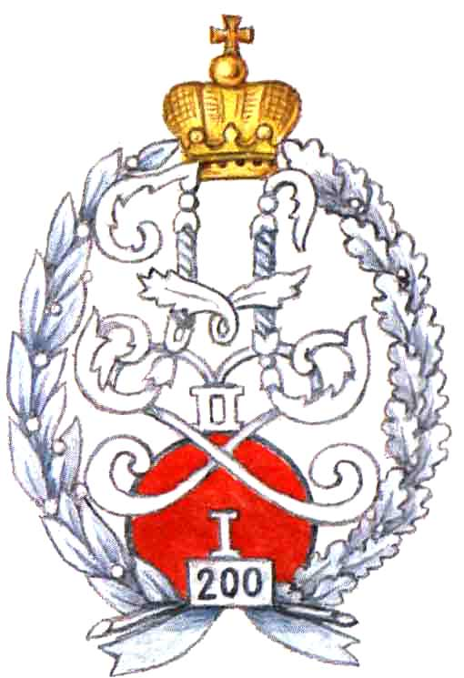 Badge of Nevsky 1-st Regiment.